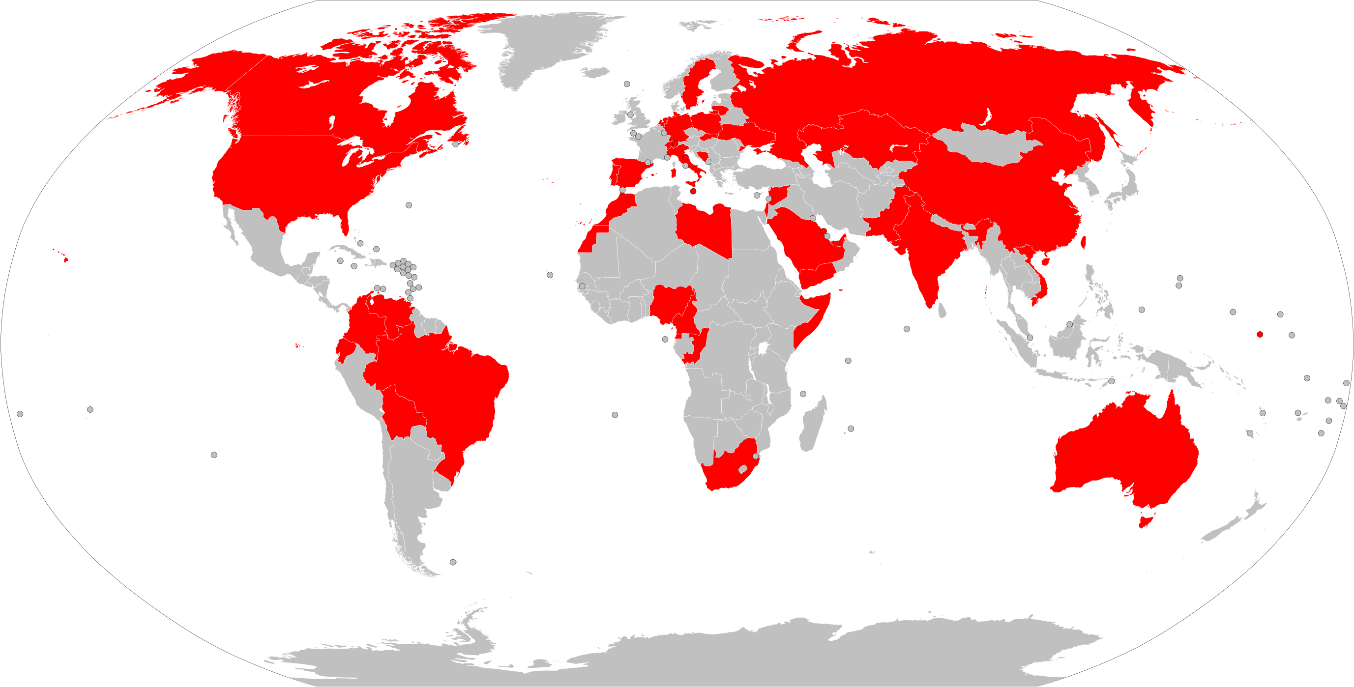 Countries without a primate city